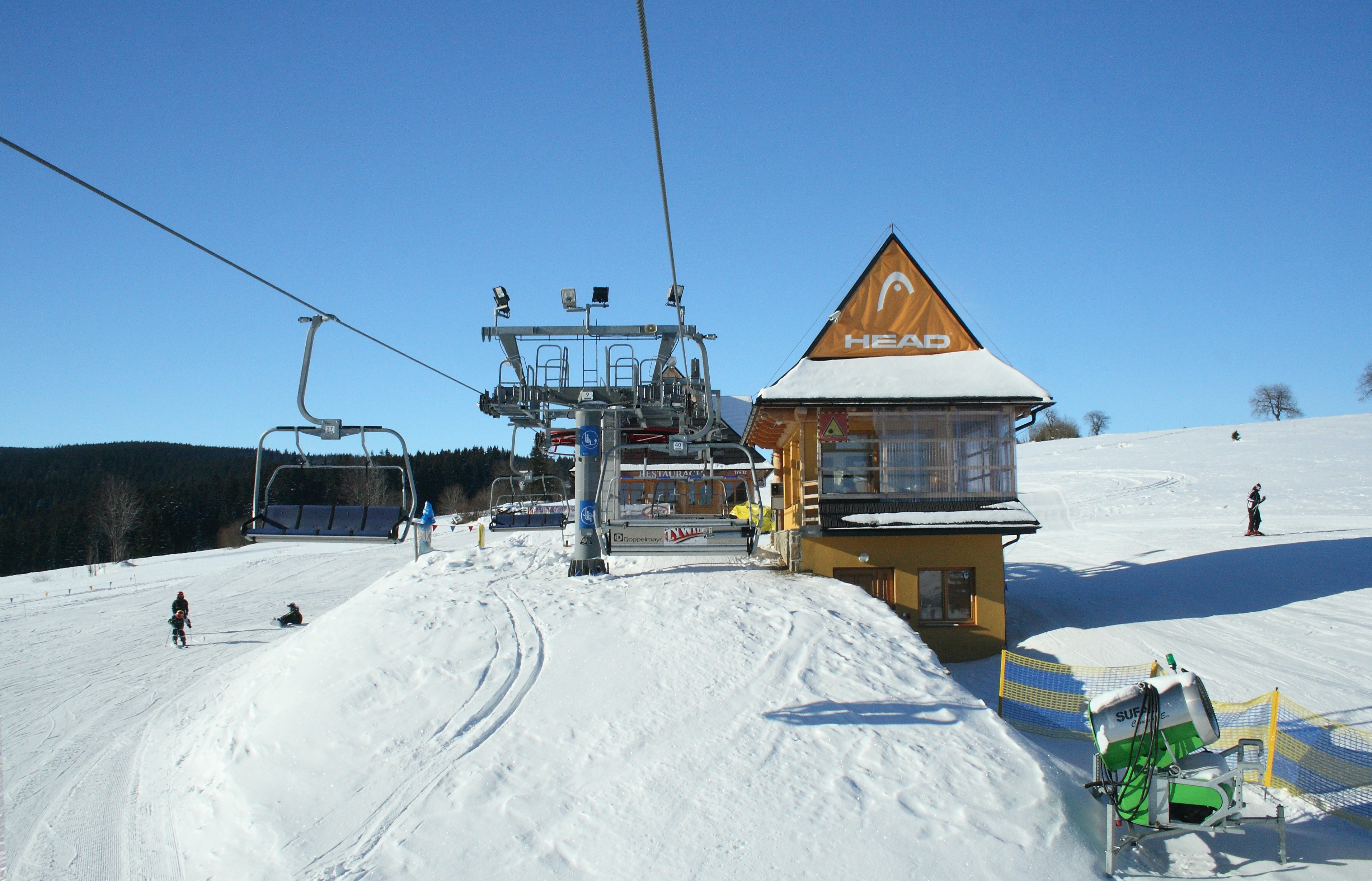 Ski Center Witów-Ski in Witów near Zakopane